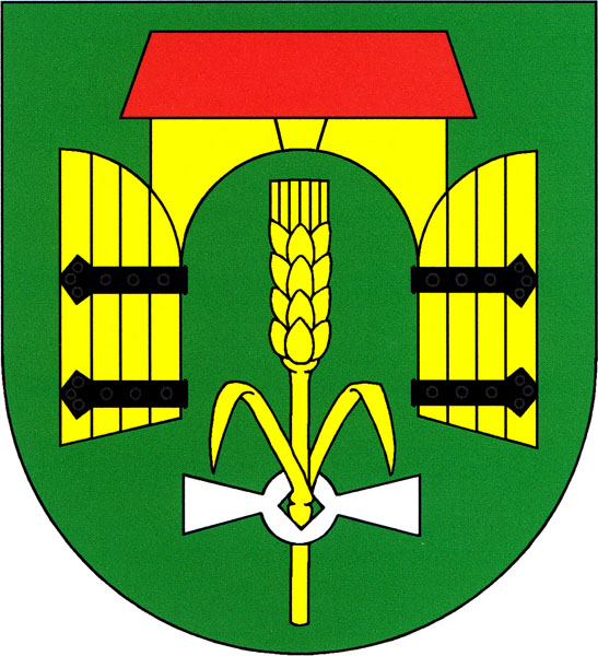 Coat of amrs of Nový Dvůr , District Nymburk, Czech republic